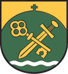 Coat of Arms of Rustenfelde